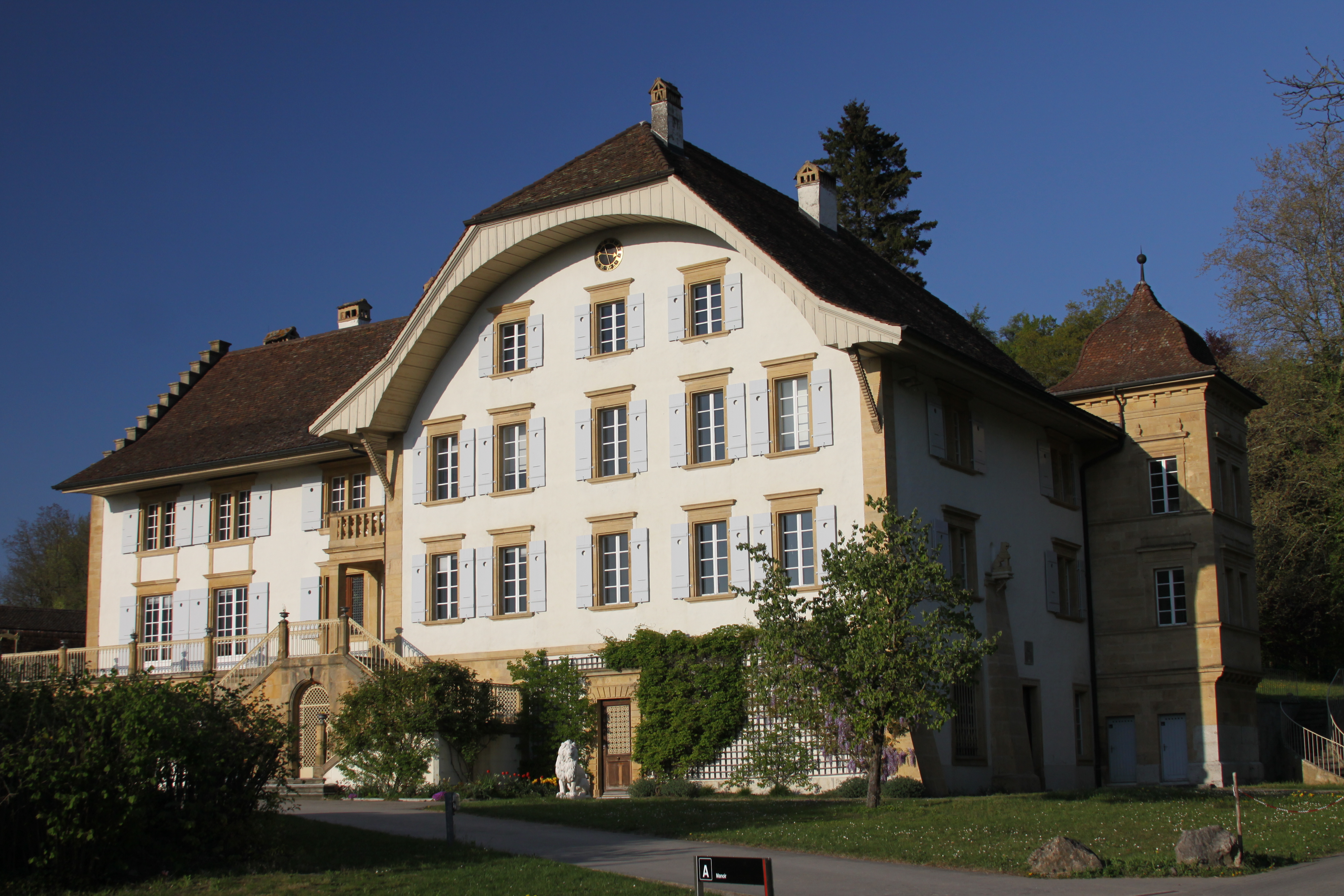 Löwenberg Castle, Löwenberg 45, Murten